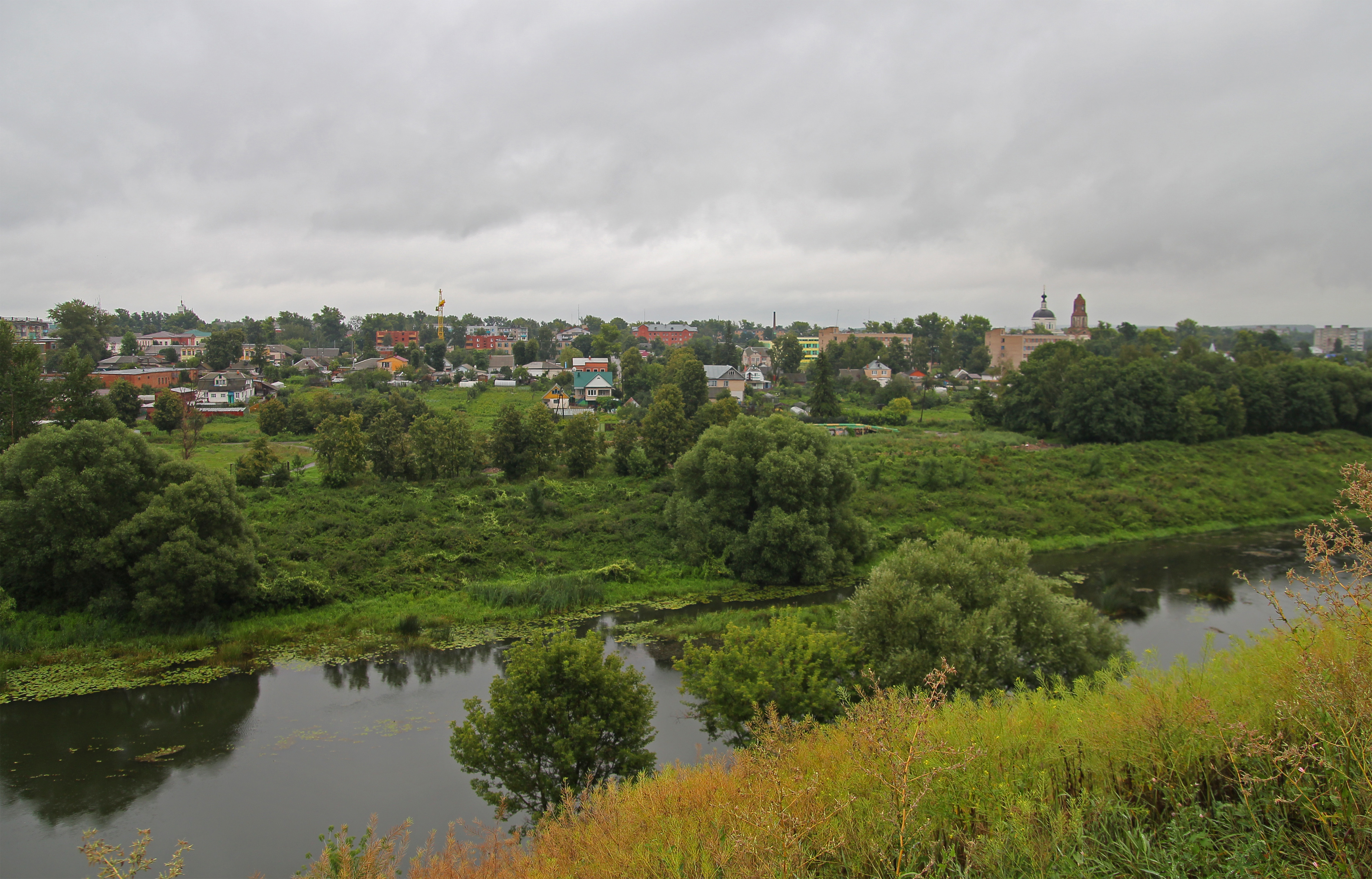 View on parts of Mtsensk (Russia) and the Zusha River